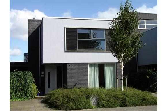 A picture of the Antiguastraat.